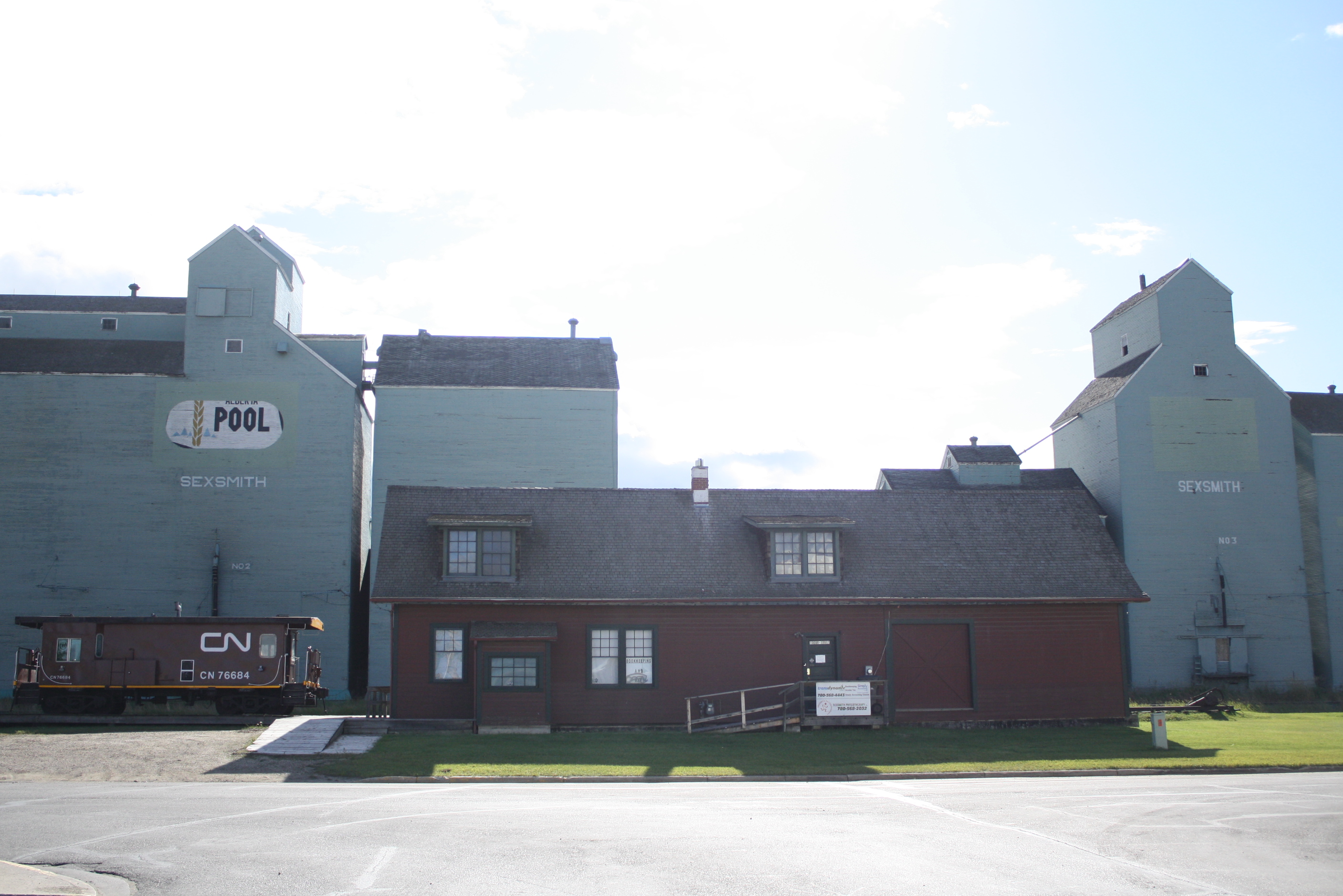 Downtown Sexsmith